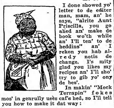 Image of Aunt Priscilla for her food column in The Baltimore Sun, 1921. Aunt Priscilla was the pseudonym for Eleanor Purcell, who wrote the column using exaggerated dialect for her Southern cooking recipes.